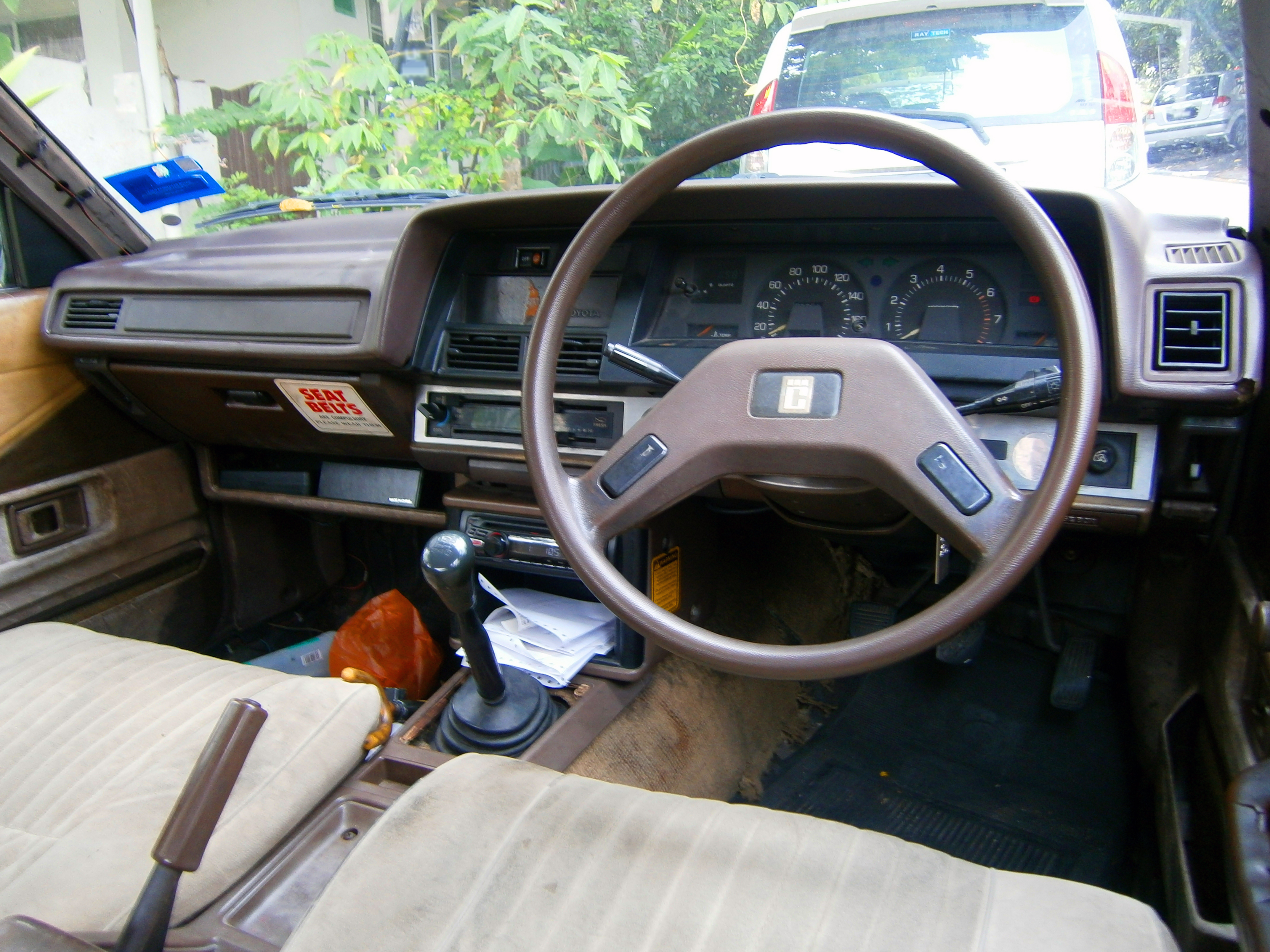 1984 Toyota Corolla KE70 in Petaling Jaya, Malaysia.Designed & Assembled in Japan